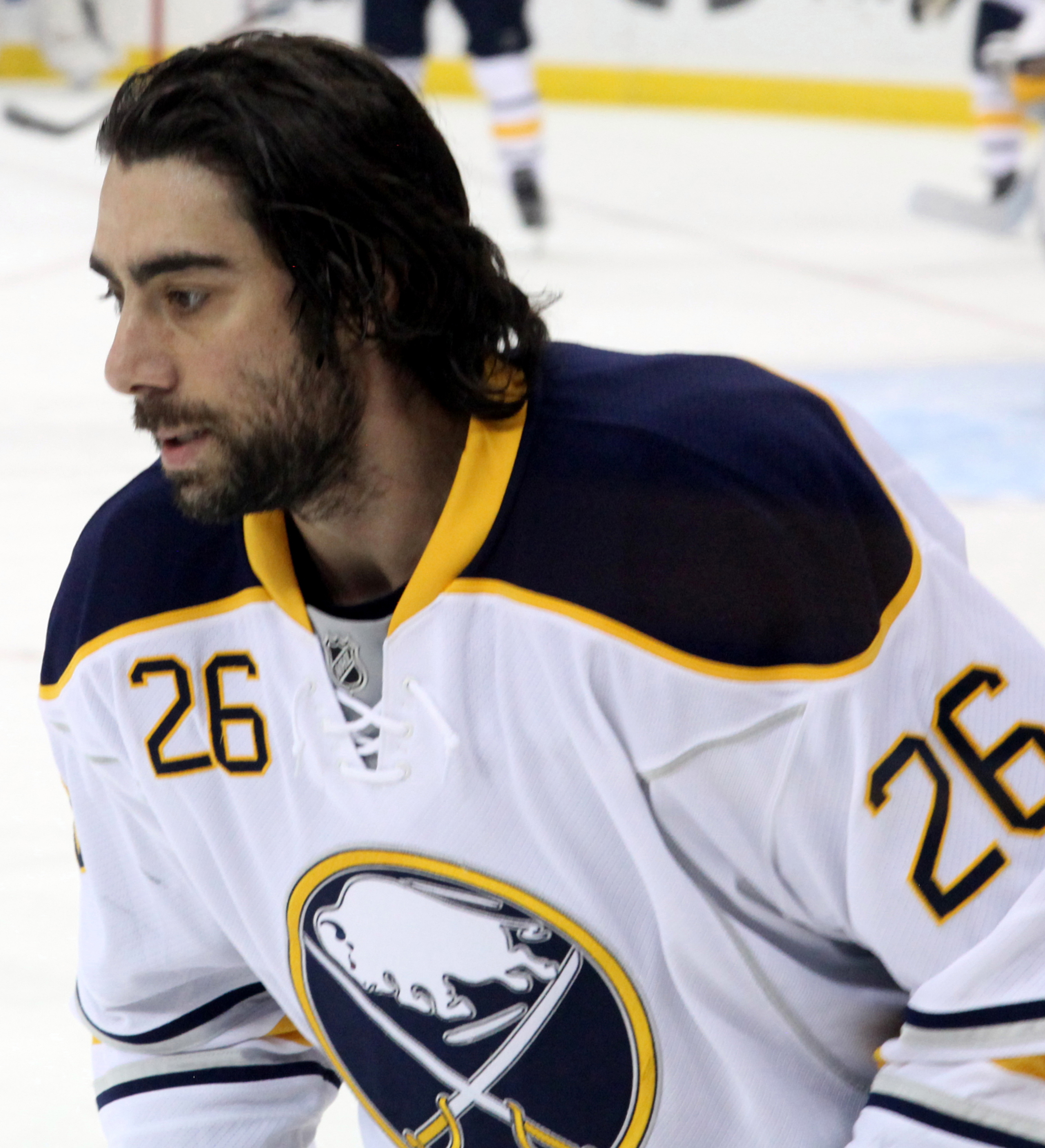 Moulson in April 2016